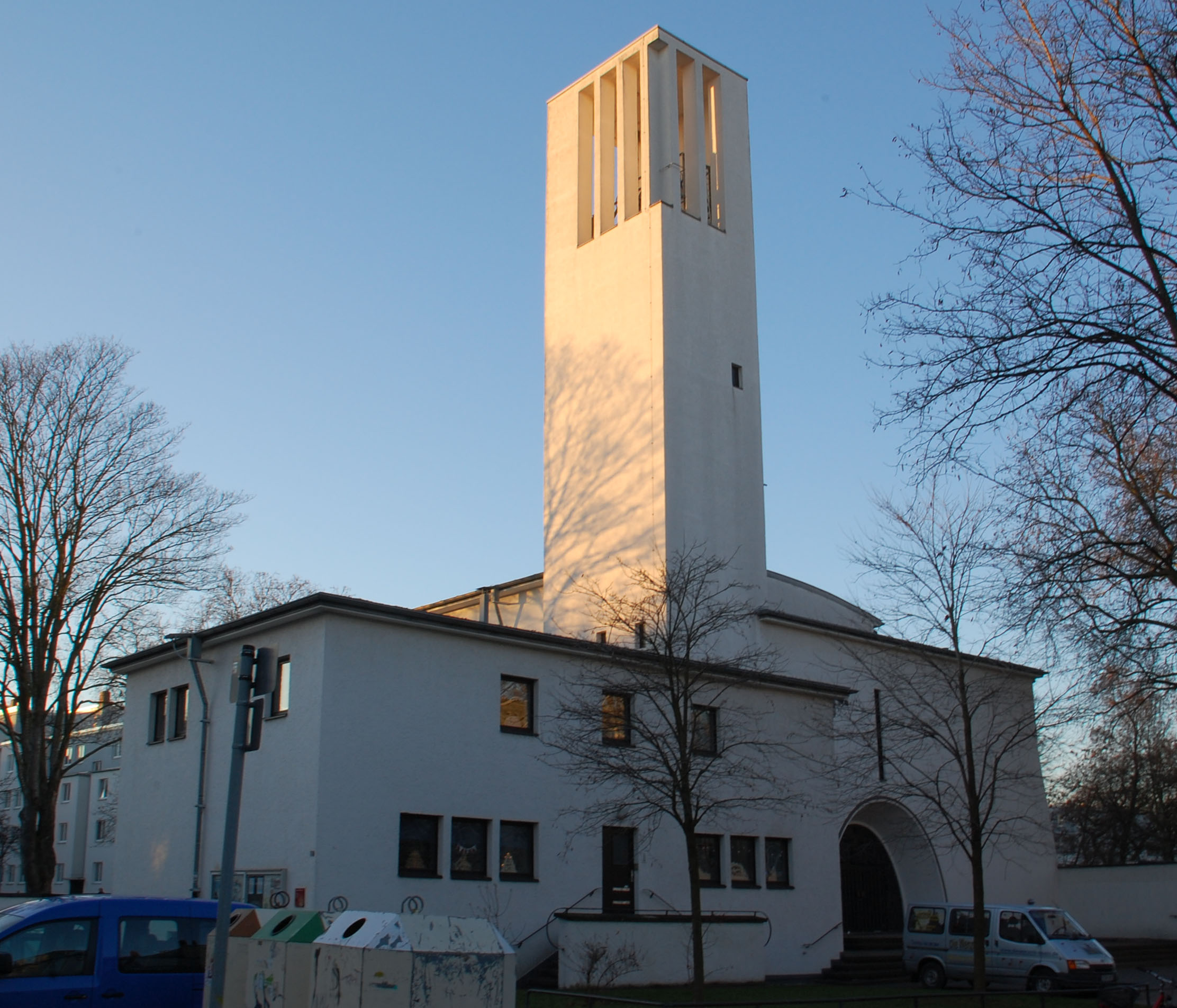 Melanchthonkirche, Köln-Zollstock This is the photograph of an architectural monument. It is part of the list of cultural monuments of Köln, no. 1214